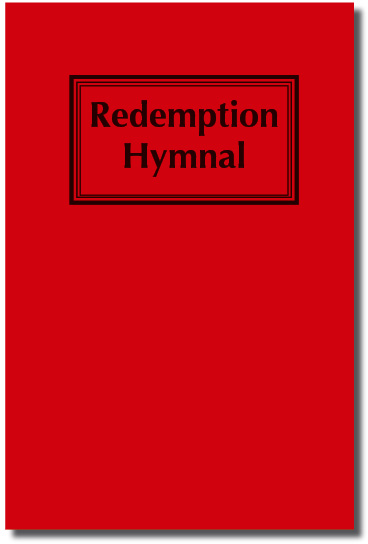 A scanned image of the Redemption Hymnal cover.